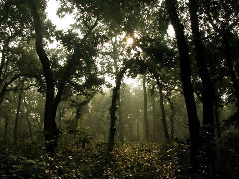 © Leonardo C. Fleck